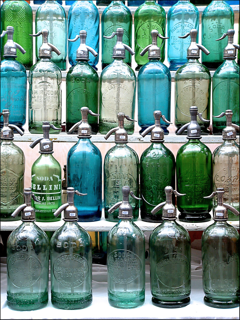 Siphon bottles in an Italian street market.